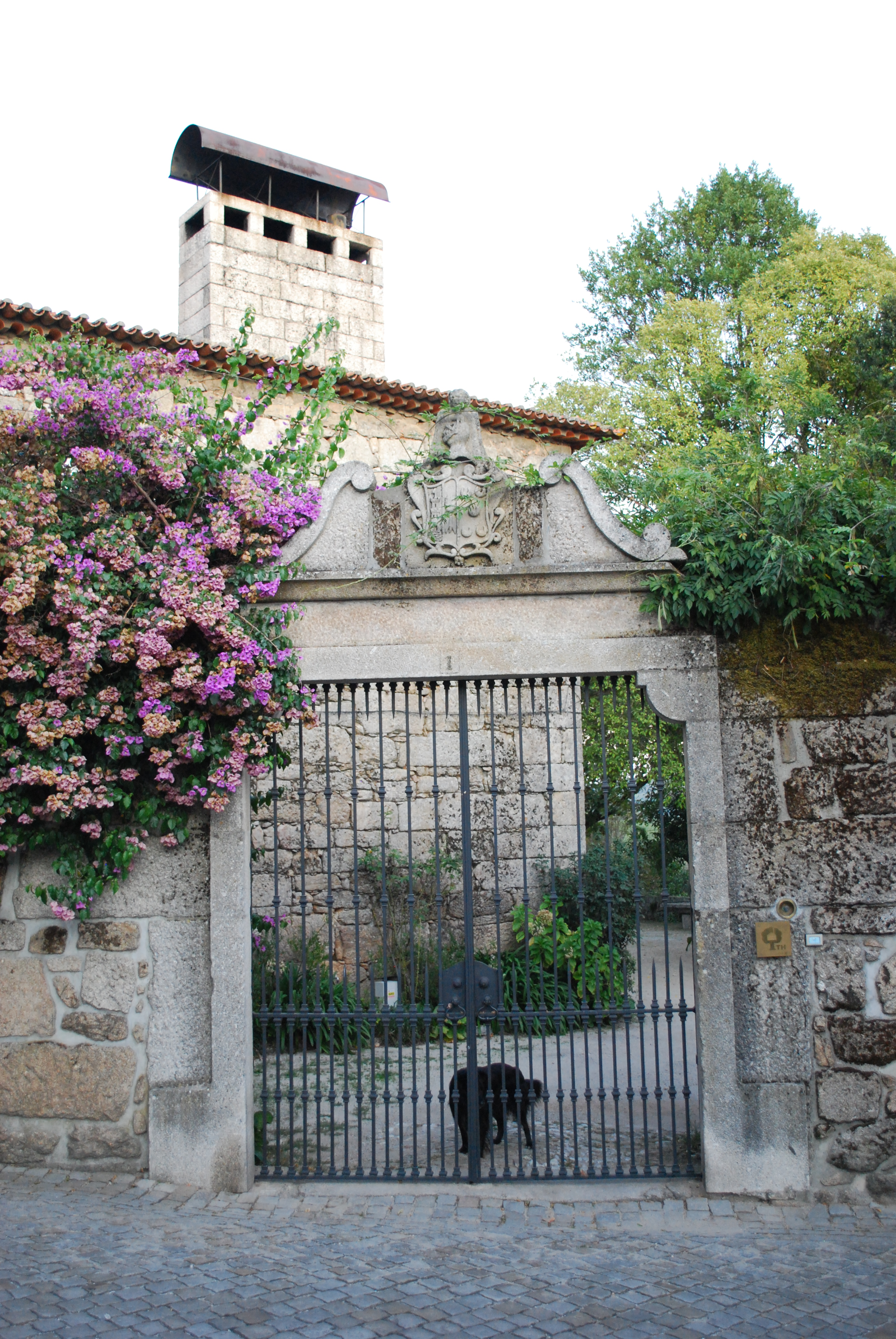 This file was uploaded for Wiki Loves Monuments in Portugal with the unique identifier 74677.